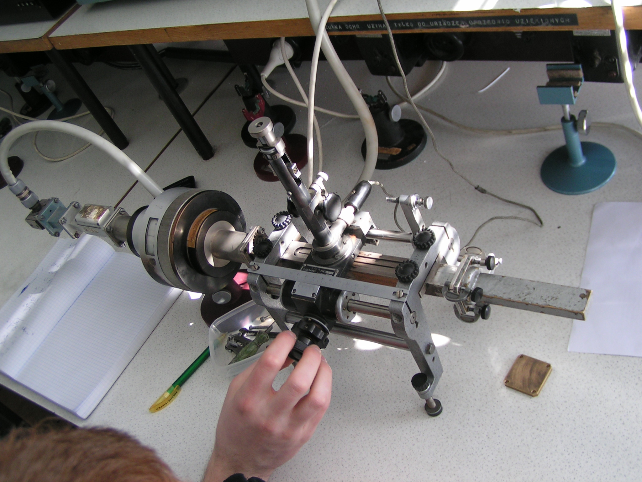 Microwave test bench. From left to right: coax to waveguide transition, taper to narrower guide (blue), ferrite isolator, precision rotary variable attenuator, slotted line, matched load (on the table under the load is the short used to fix the reference plane). Microwave circuit laboratory, Faculty of Electronics, Telecommunications and Informatics, Gdańsk University of Technology.